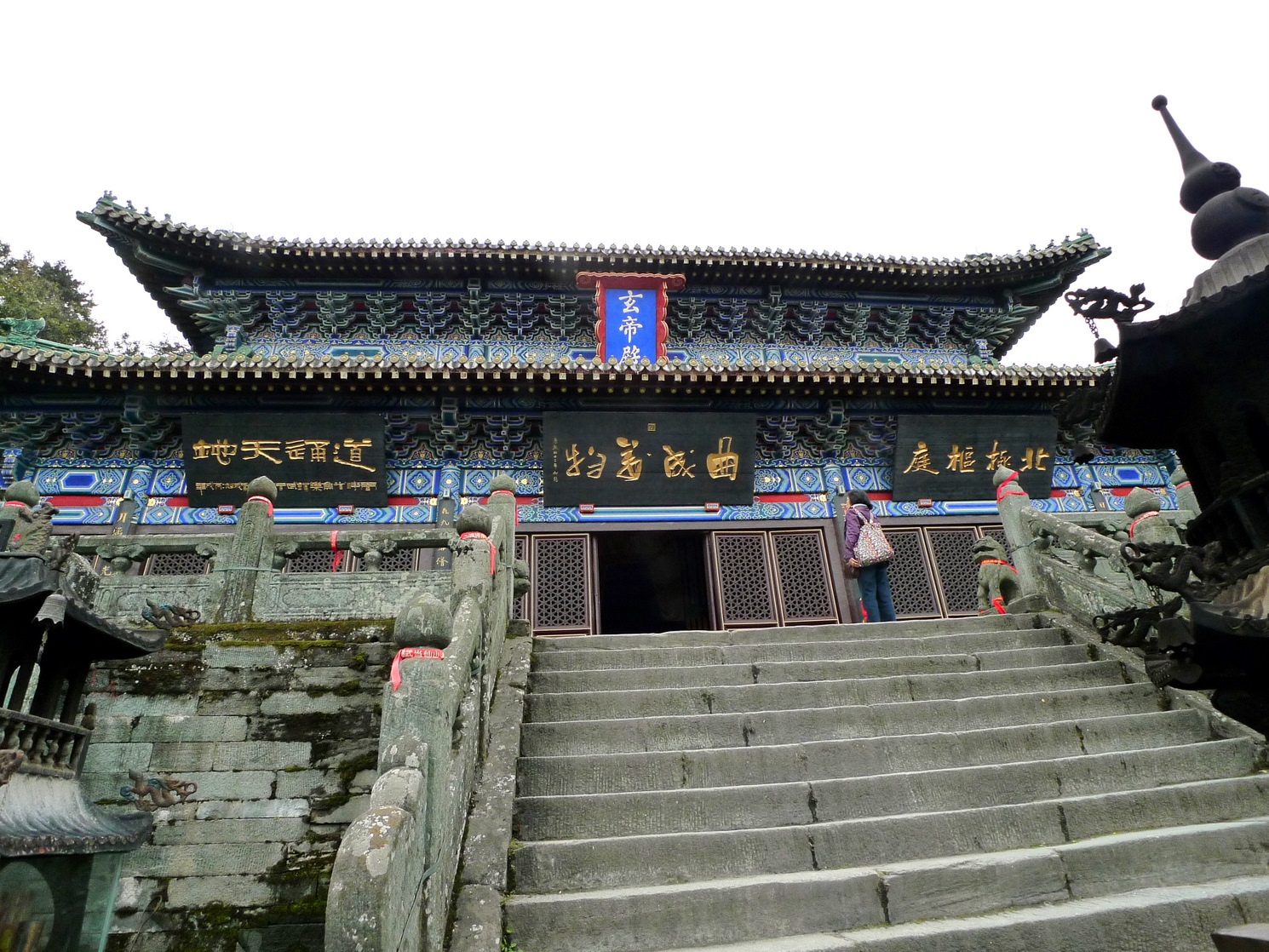 武当山玄帝殿